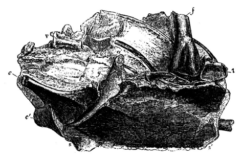 Woodcut of the Lithornis vulturinus holotype; shows sternum, proximal ends of coracoid bones, a dorsal vertebra, distal end of left femur, proximal end of tibia (ref).